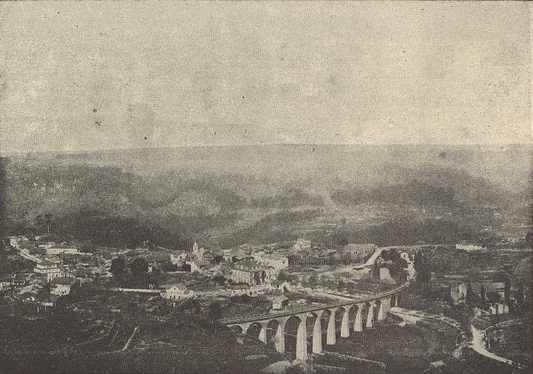 Panoramic view of Vouzela, in the Viseu District, in Portugal. The bridge on the center was part of the Vouga Railway, and on the right was the Vouzela Railway Station. This image was published on the Gazeta dos Caminhos de Ferro magazine no. 1363, of the 1st October 1944, and scanned by the Hemeroteca Municipal de Lisboa.